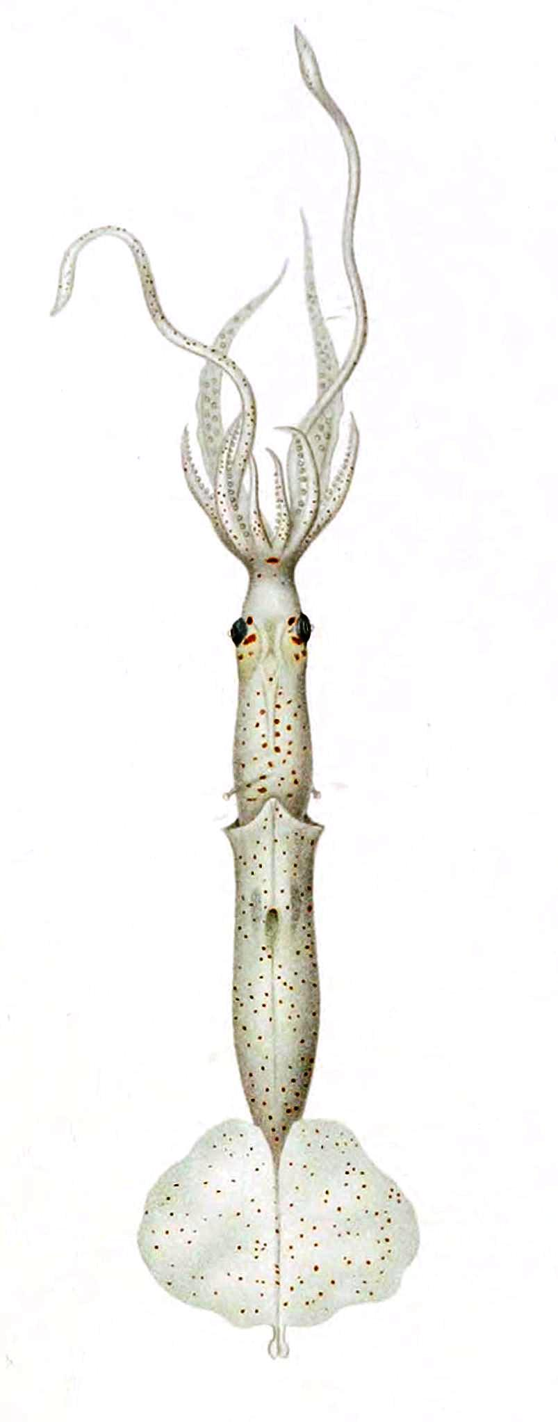 Paralarva of Grimalditeuthis bonplandi (as Doratopsis sagitta)